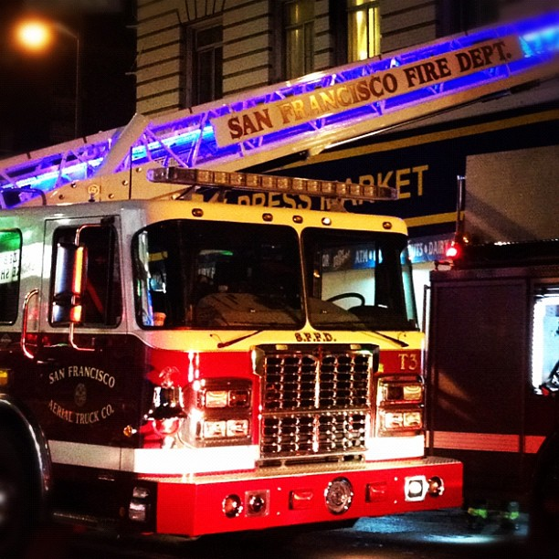 Fire in the Tenderloin SFFD San Francisco Fire Department 8286722366 o